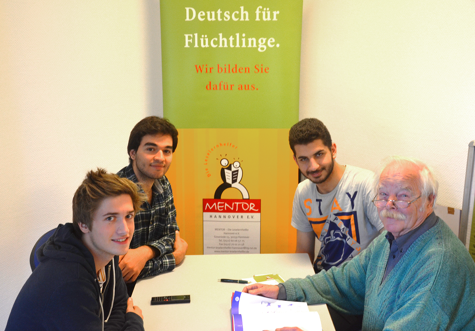 Meeting at Mentor – Die Leselernhelfer Hannover e.V.